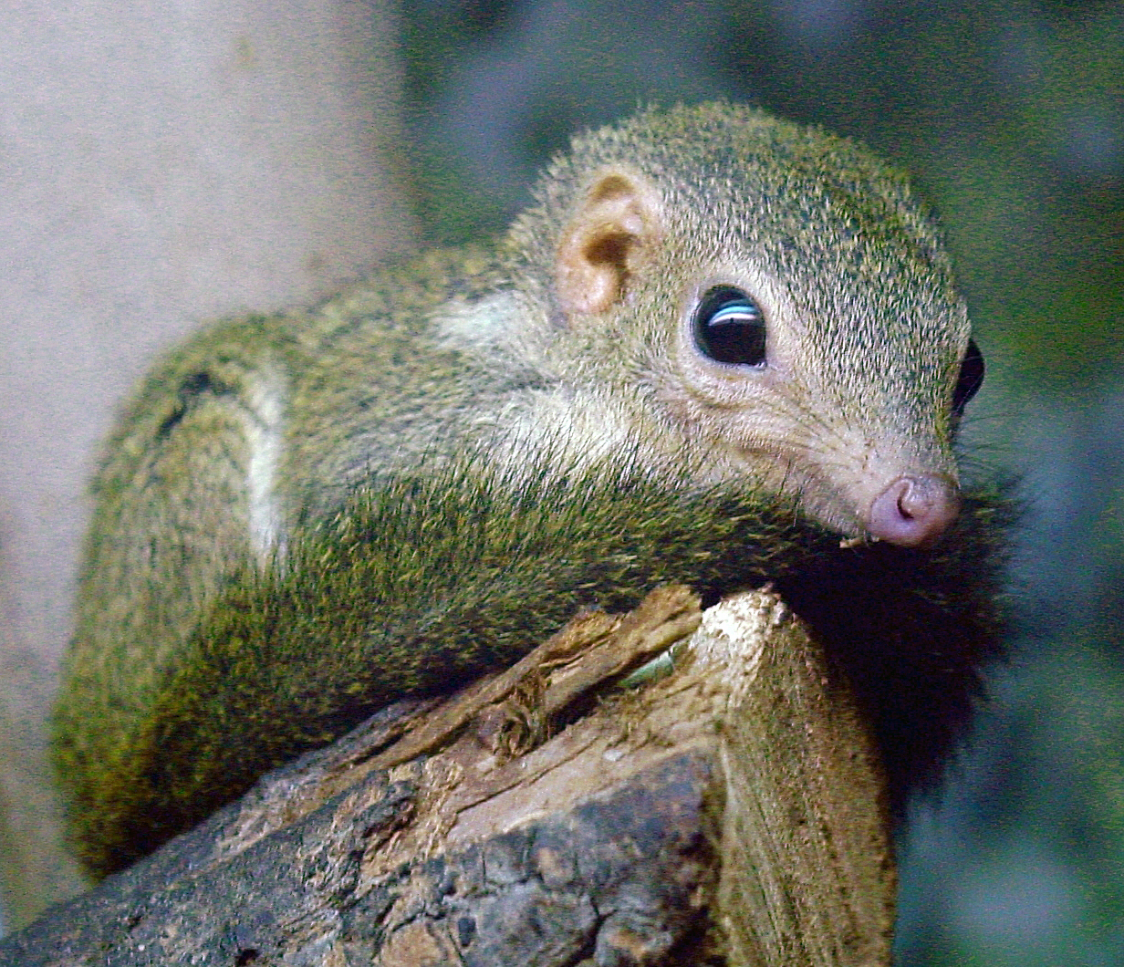 photo of Tupaia minor at the Philadelphia Zoo.